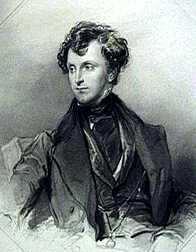 JamesEmersonTennen